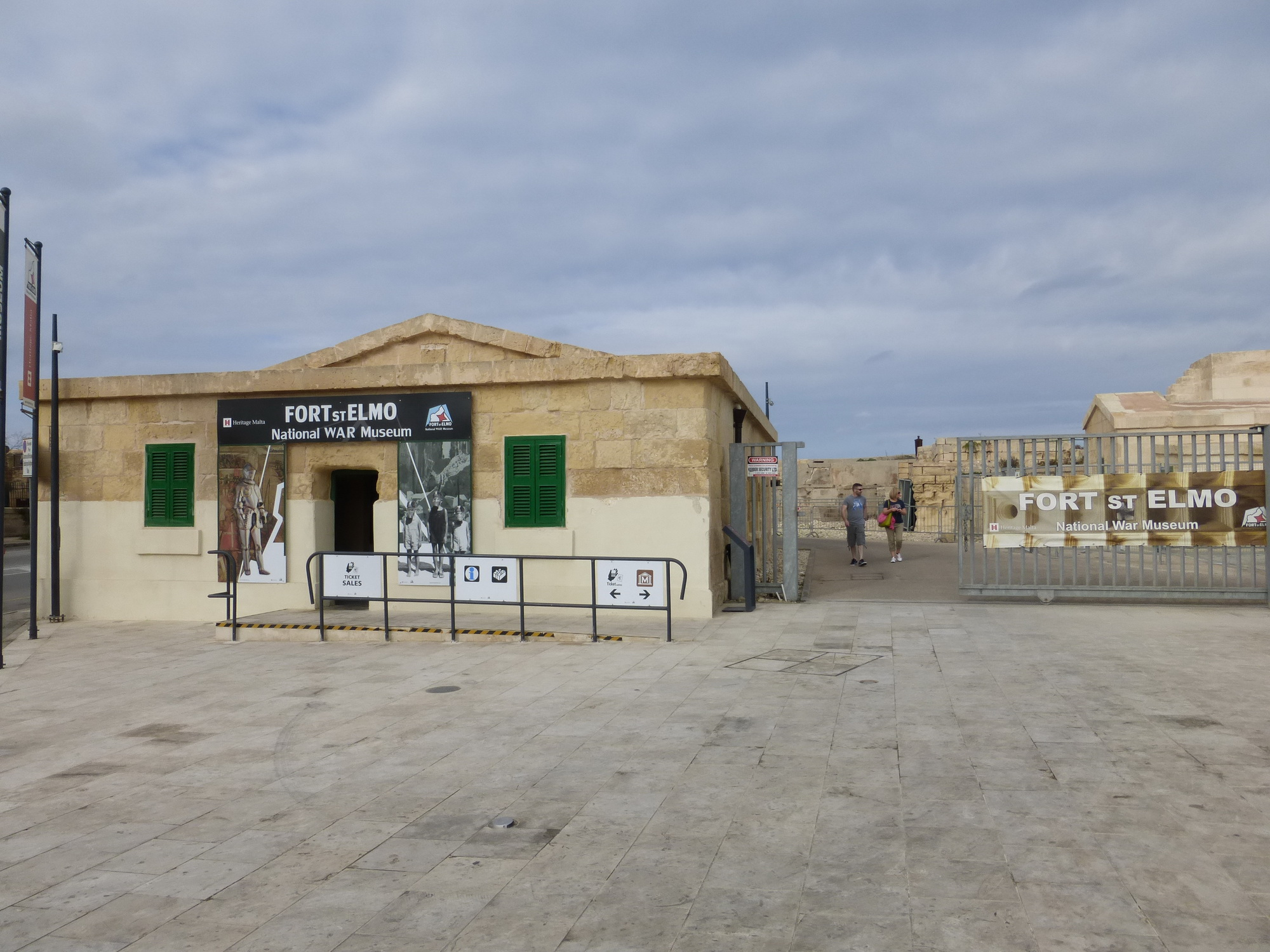 Entrance to the National War Museum in Fort St Elmo in Valletta (Malta)